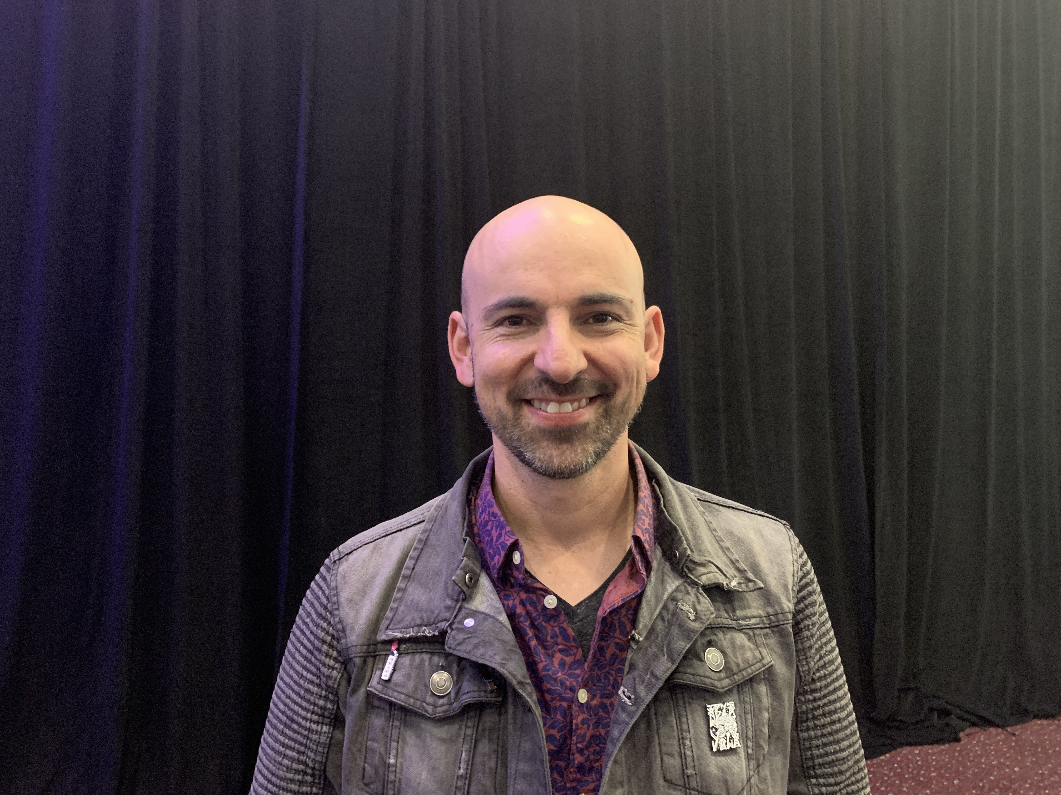 Federico Ardila was one of three recipients of the Haimo awards given by the Mathematical Association of America (MAA) in January, 2020. This is a photo of him after receiving the Haimo award at the 2020 Joint Mathematics Meeting (JMM) in Denver, CO.